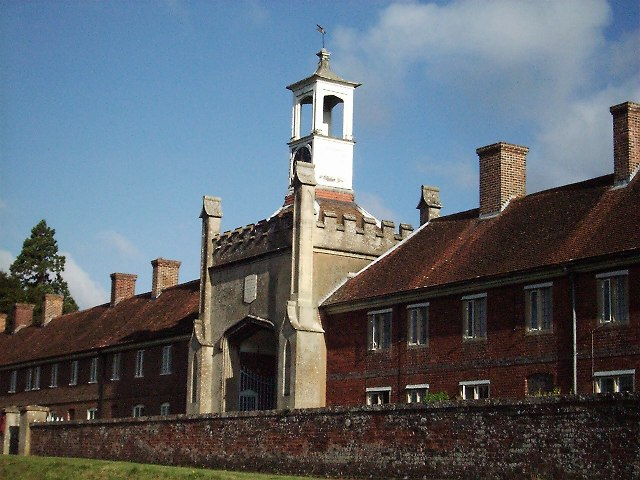 Froxfield Hospital. Taken whilst passing through on the K&A